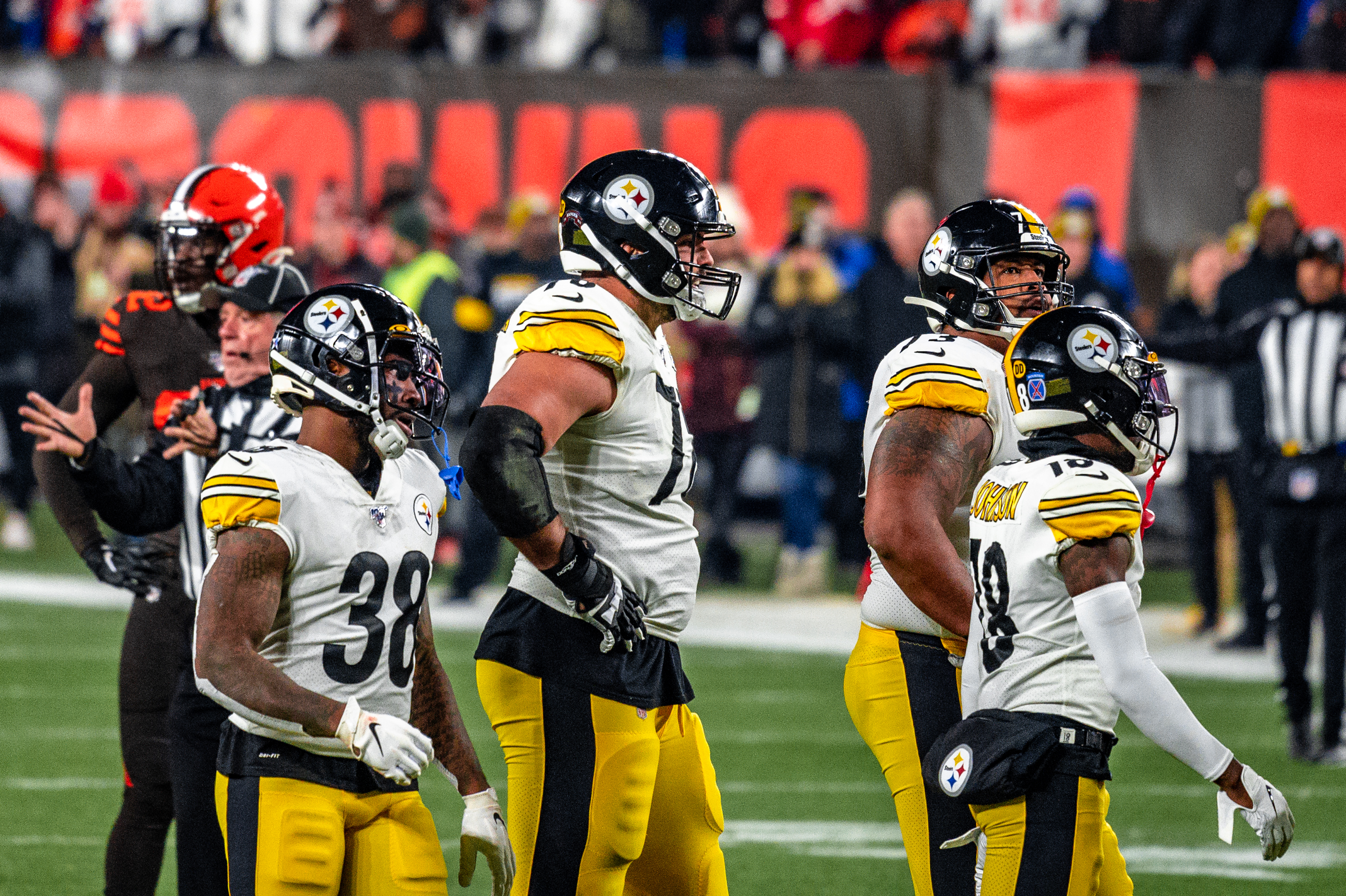 Steelers vs Browns 2019